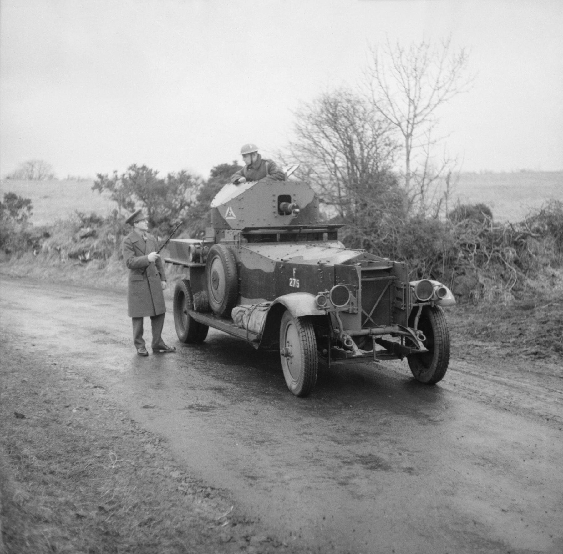 The British Army in the United Kingdom 1939-45 1920 pattern Rolls-Royce armoured car of the North Irish Horse, Northern Ireland, 28 January 1941.